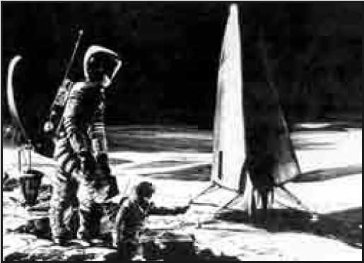 Artist's conception of the Mars Excursion Module (MEM) proposed in a NASA Study in 1964. Dixon, Franklin P. (June 12, 1964). "Summary Presentation: Study of a Manned Mars Excursion Module". Proceeding of the Symposium on Manned Planetary Missions: 1963/1964 Status. Huntsville, Alabama: NASA George C. Marshall Space Flight Center. p. 470. NASA-TM-X-53049; 64N-26979.